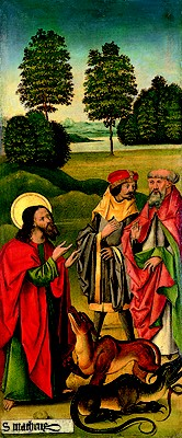 Gabriel Mälesskircher: Saint Matthew Taming the Dragon